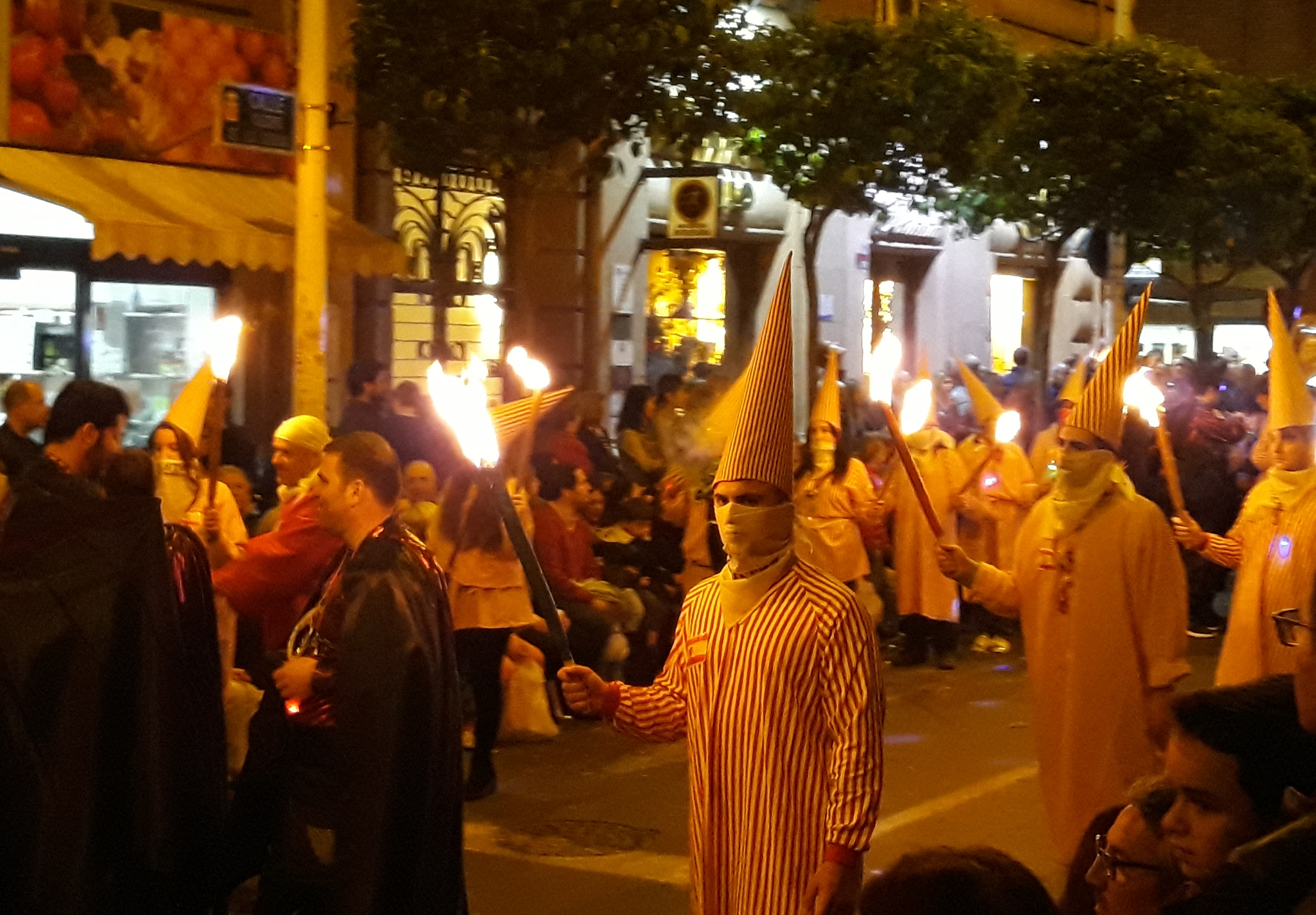 Murcian traditions